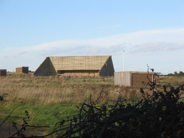 Rifle Range, Rolston, East Riding of Yorkshire, England.Looking northeast from the B1242 to the rifle range at Rolston. No red flag is flying, so no firing today!